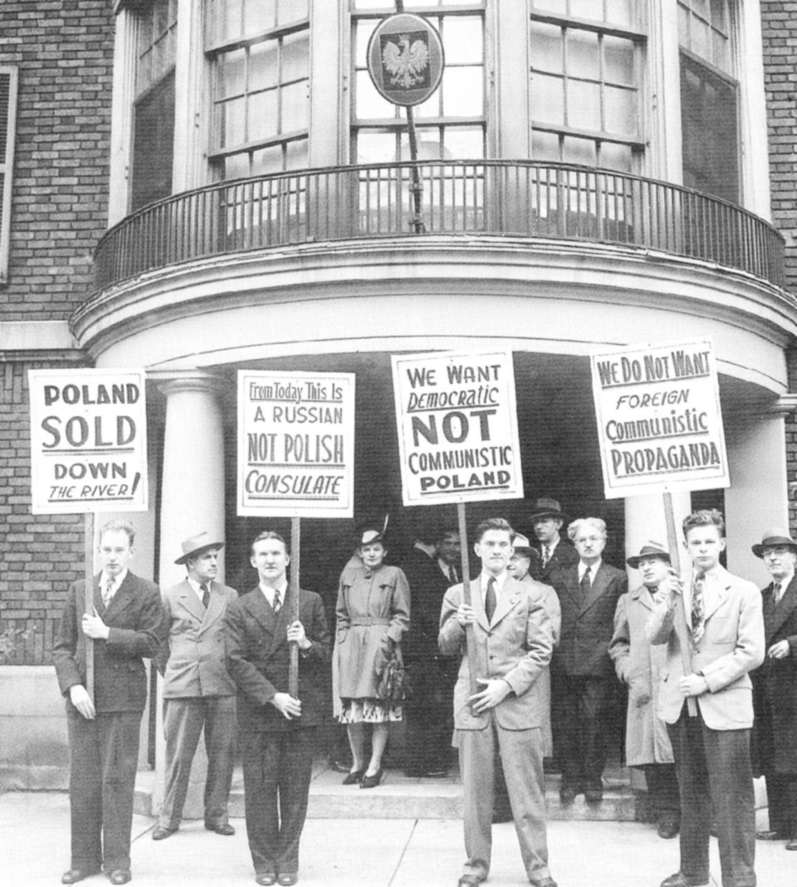 DEemonstration before the Polish Consulate in Chicago in 1945